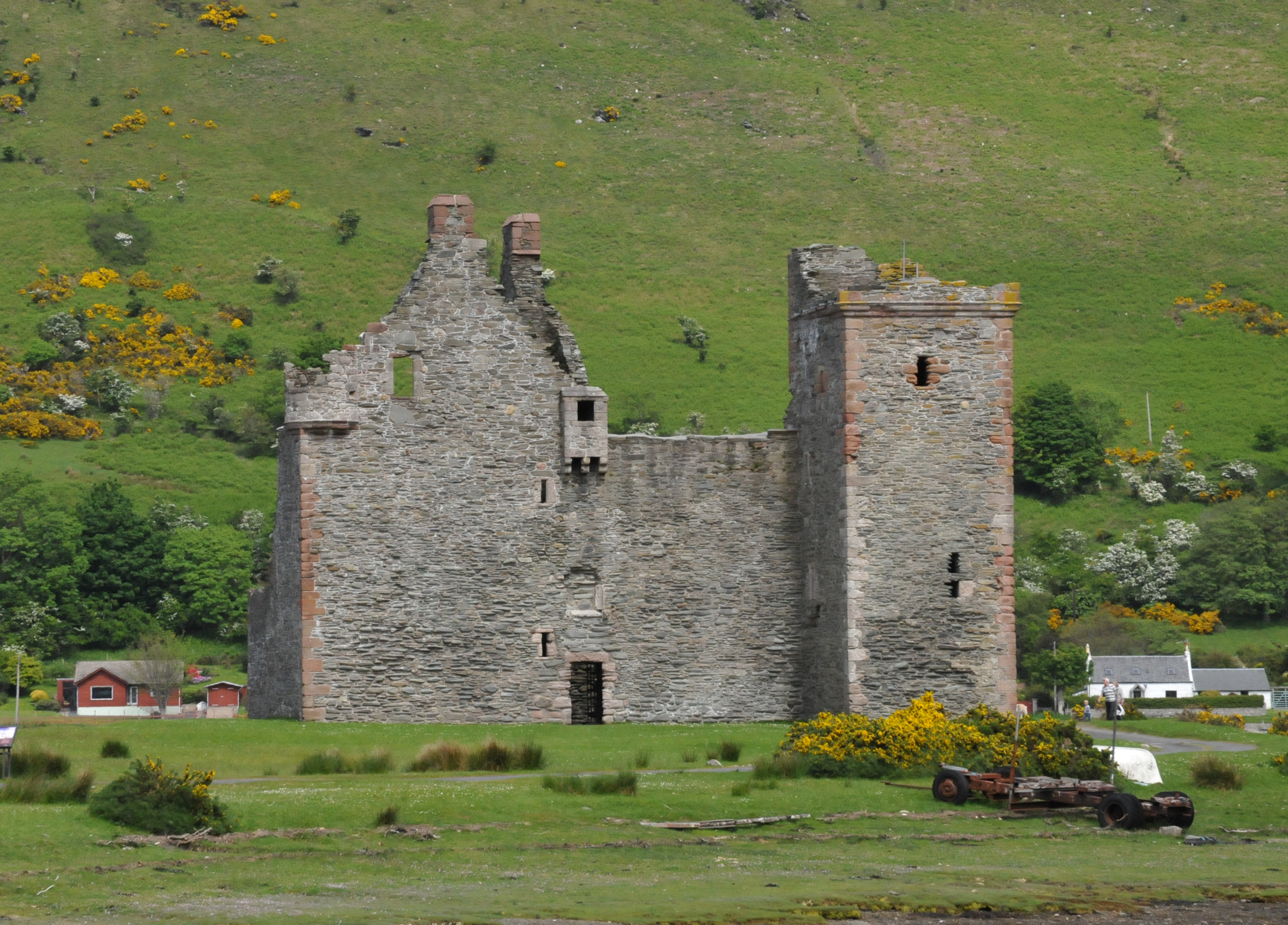 Lochranza Castle, Isle of Arran, south-western aspect